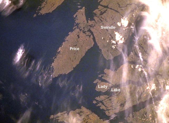 Swindle, Price, Lake, and Lady Douglas Islands in the Milbanke Sound area in west-central British Columbia, Canada.